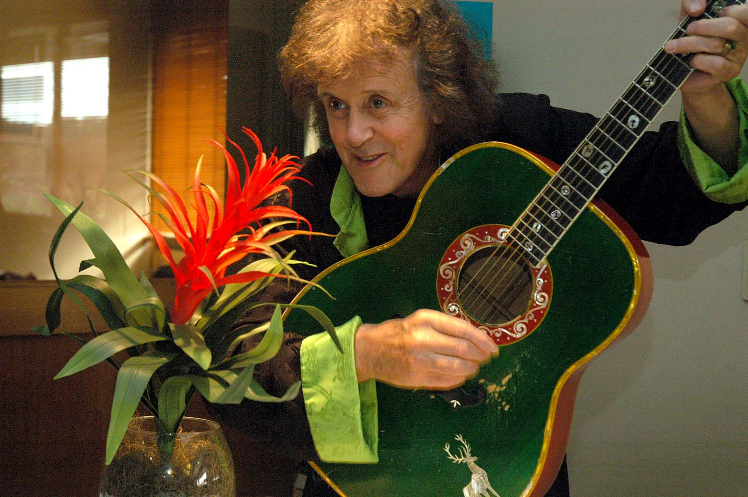 Donovan with his guitar.